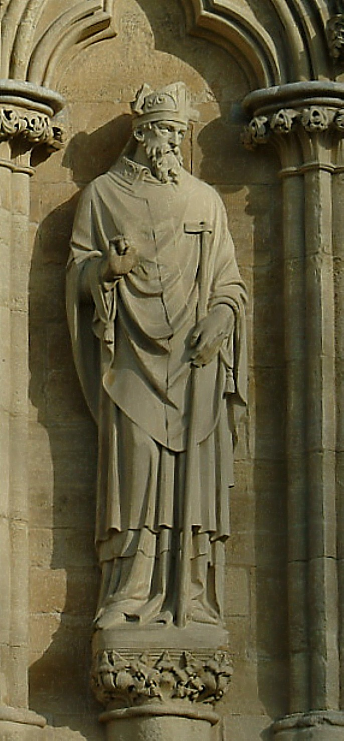 A statue of St. Thomas of Canterbury on the West Front of Salisbury Cathedral, UK.